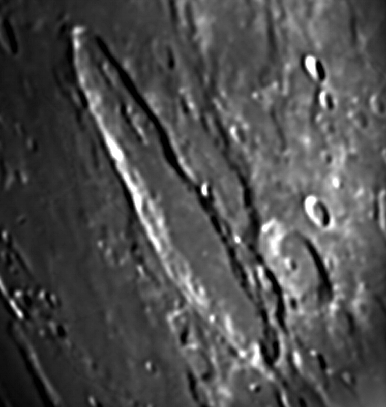 Schiller Crater as seen through a telescope